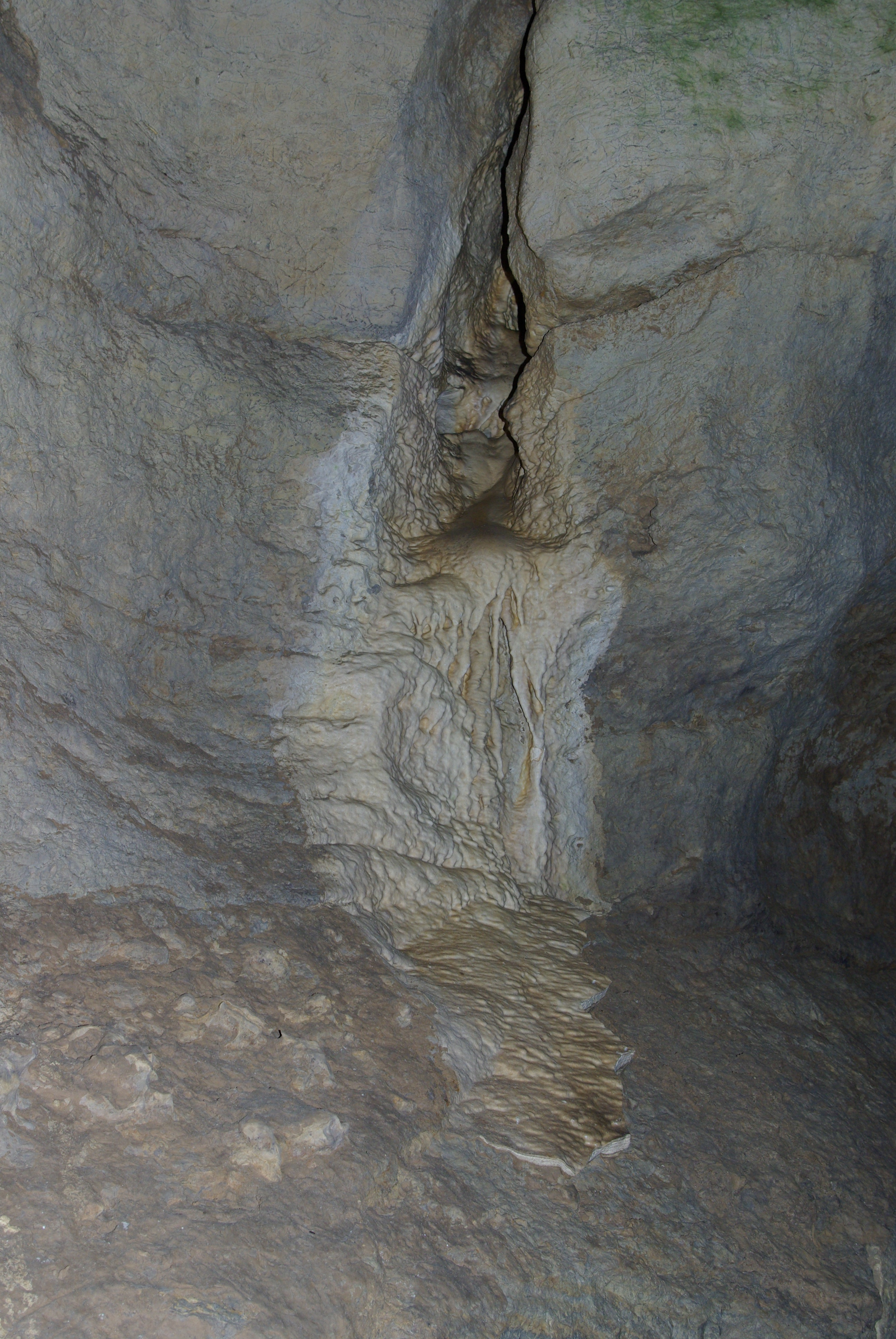 Devil's Cave (near Pottenstein)